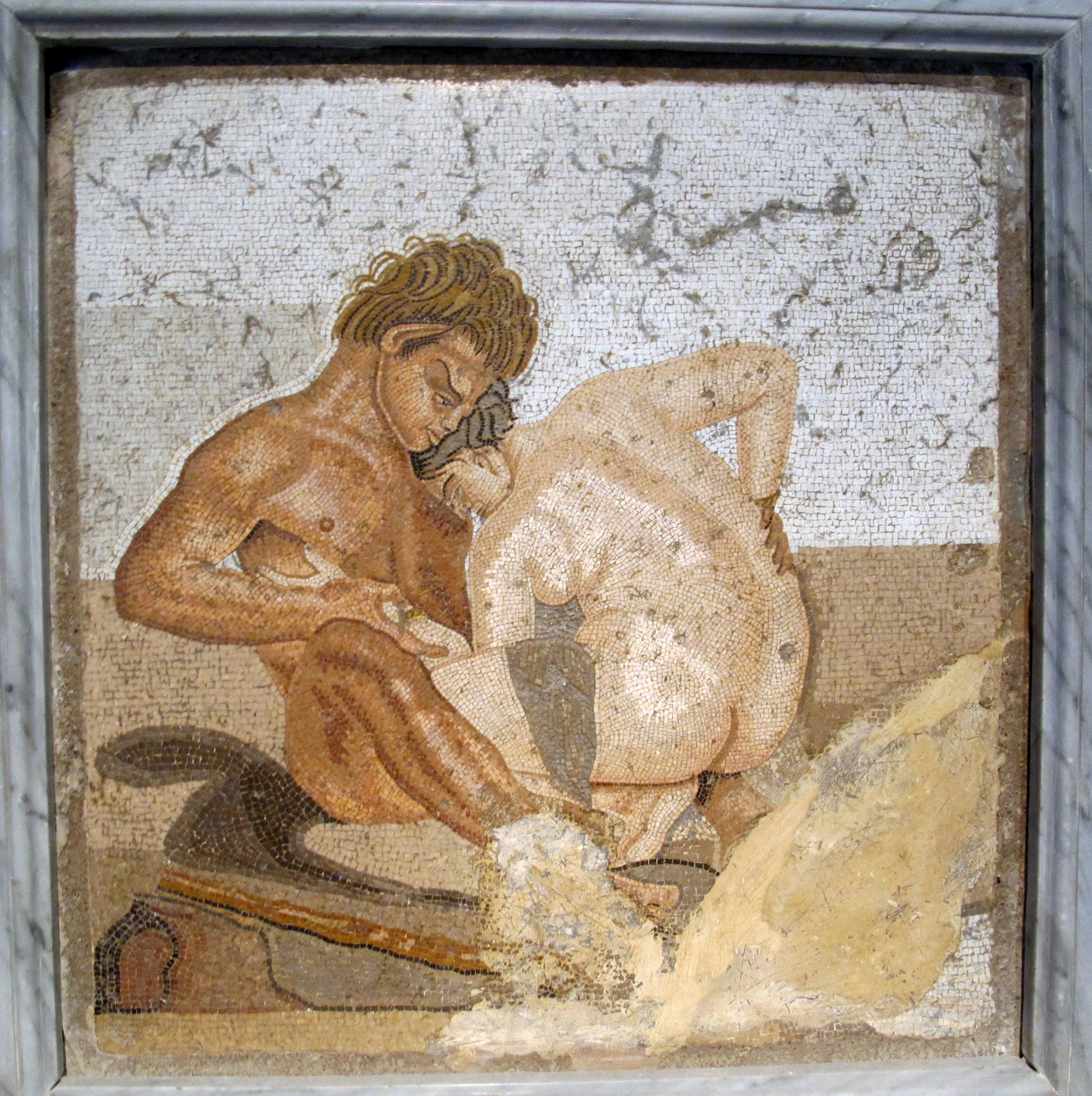 Mosaics from Pompeii in the Museo Archeologico Nazionale in Naples (